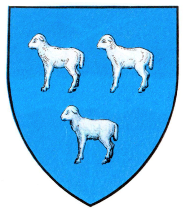 Interwar coat of arms of Teleorman County, Kingdom of Romania.